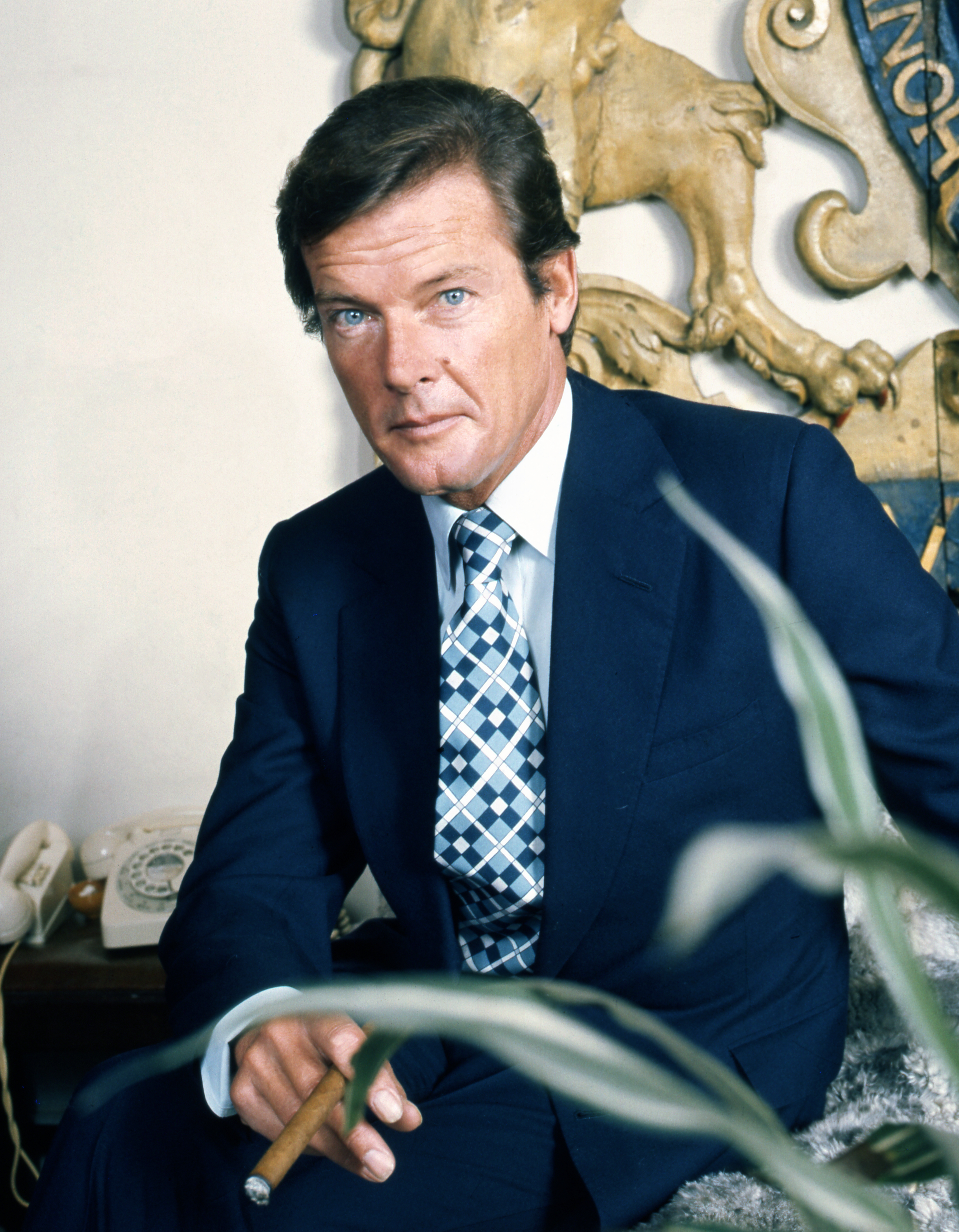 Portrait of Sir Roger Moore sitting on the photographer's bed.